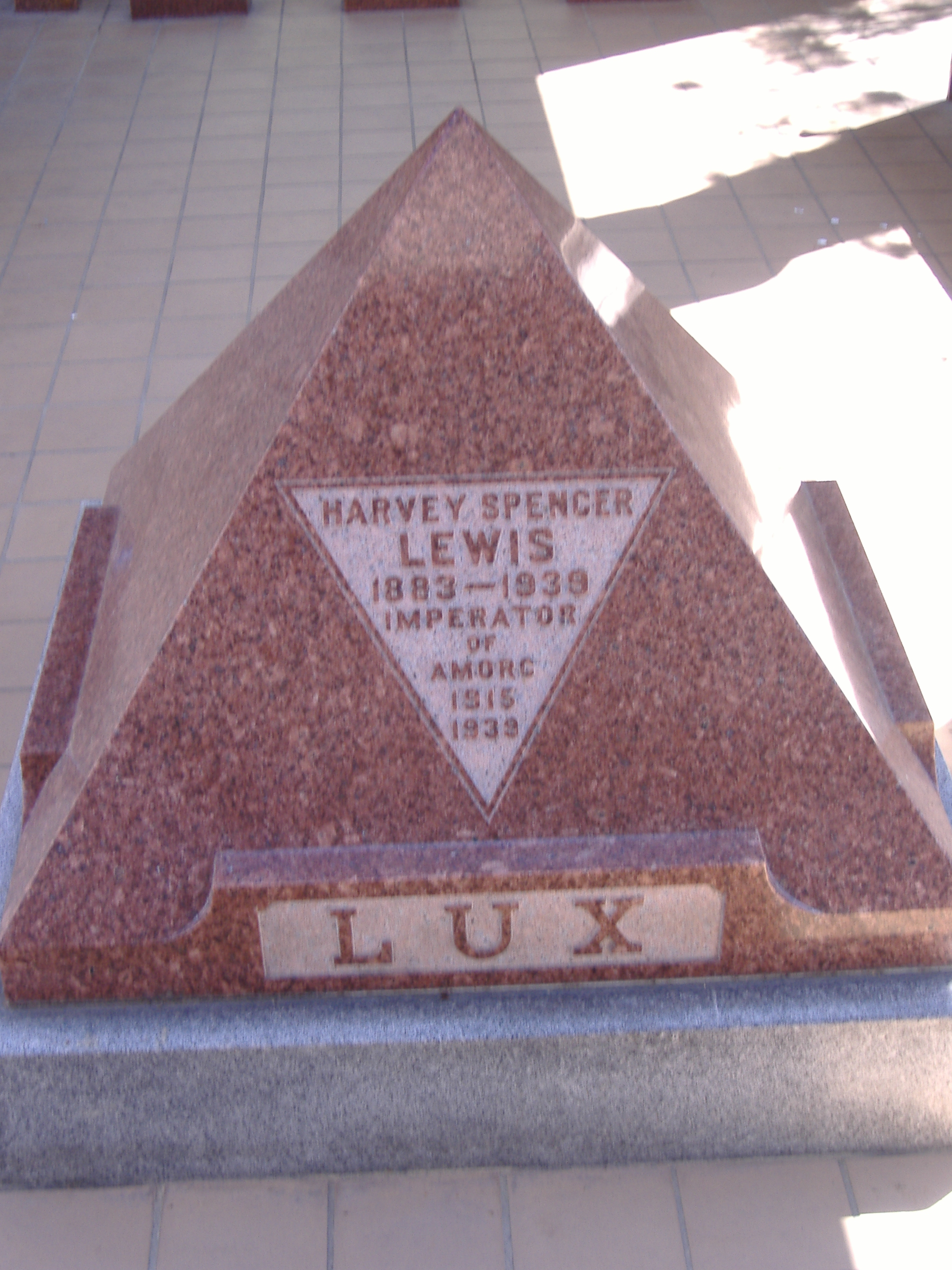 frontside